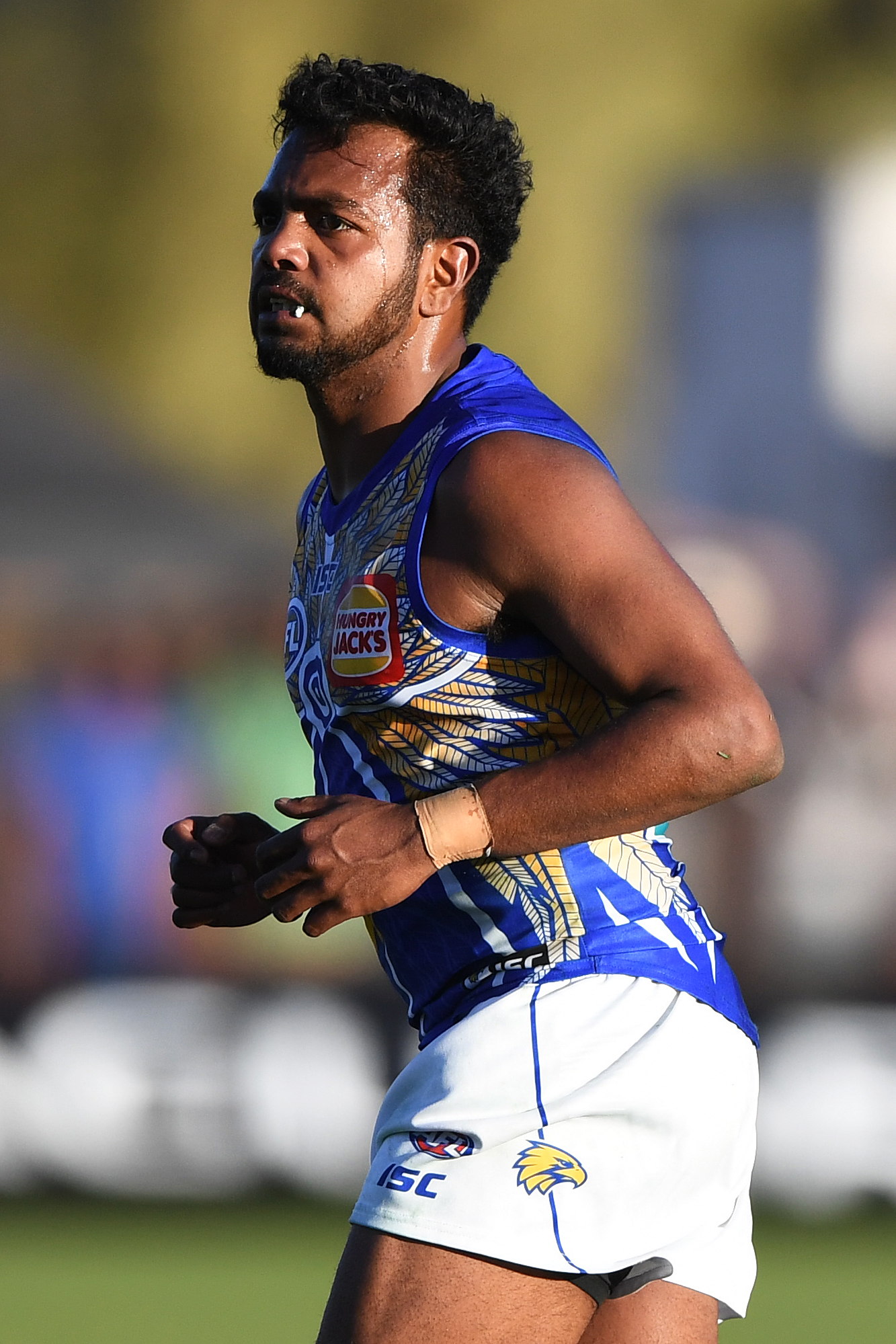 Willie Rioli of West Coast during the 2019 AFL round 18 match between Melbourne and West Coast at Traeger Park on Sunday, 21 July 2019 in Alice Springs, Northern Territory.